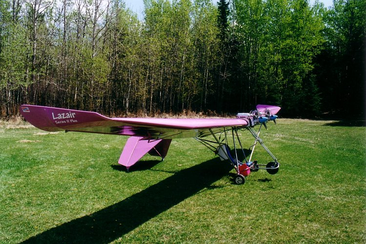 I took this photo of a modified Lazair Series II